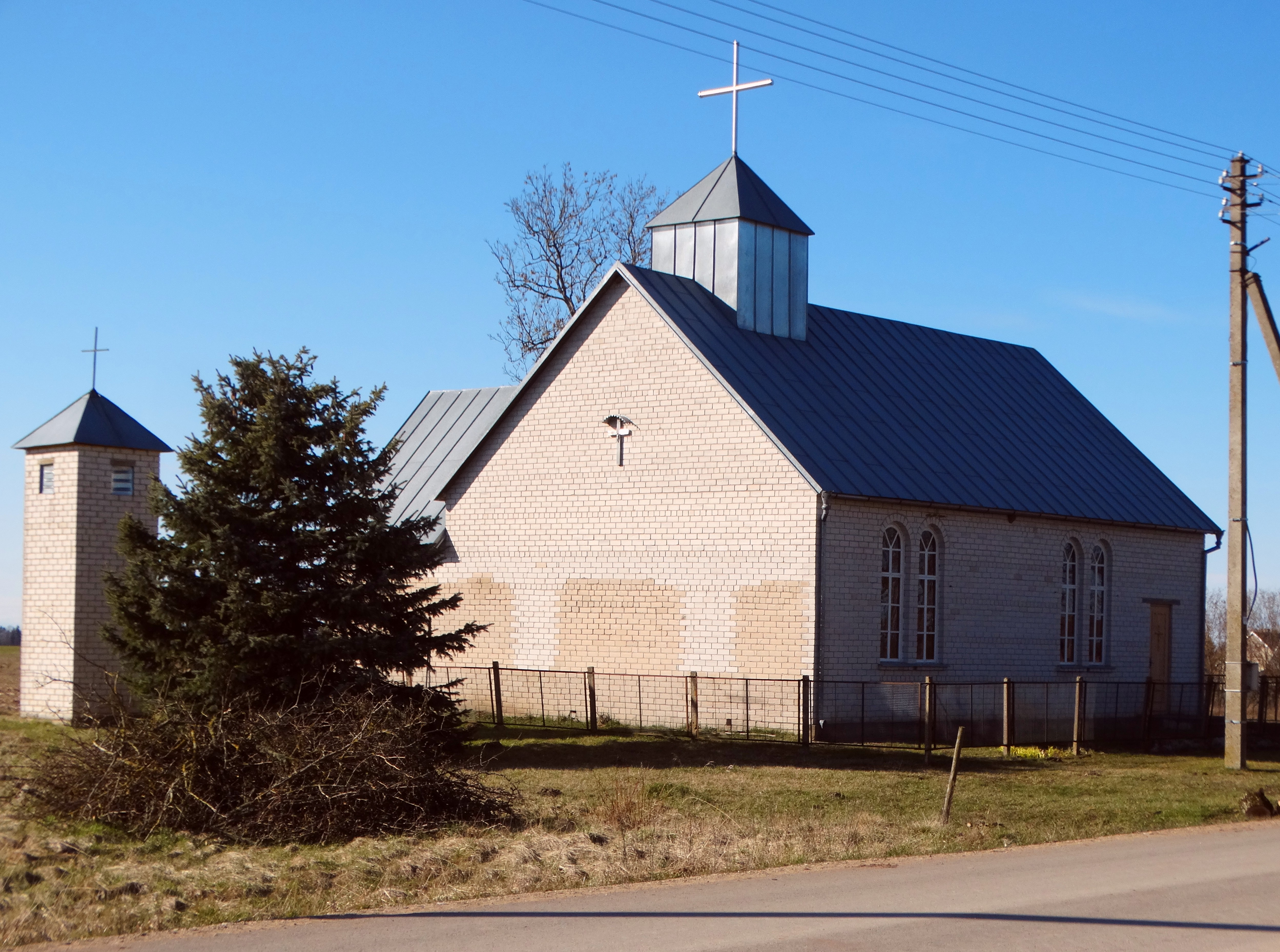 Juodpėnai, chapel, Kupiškis district, Lithuania